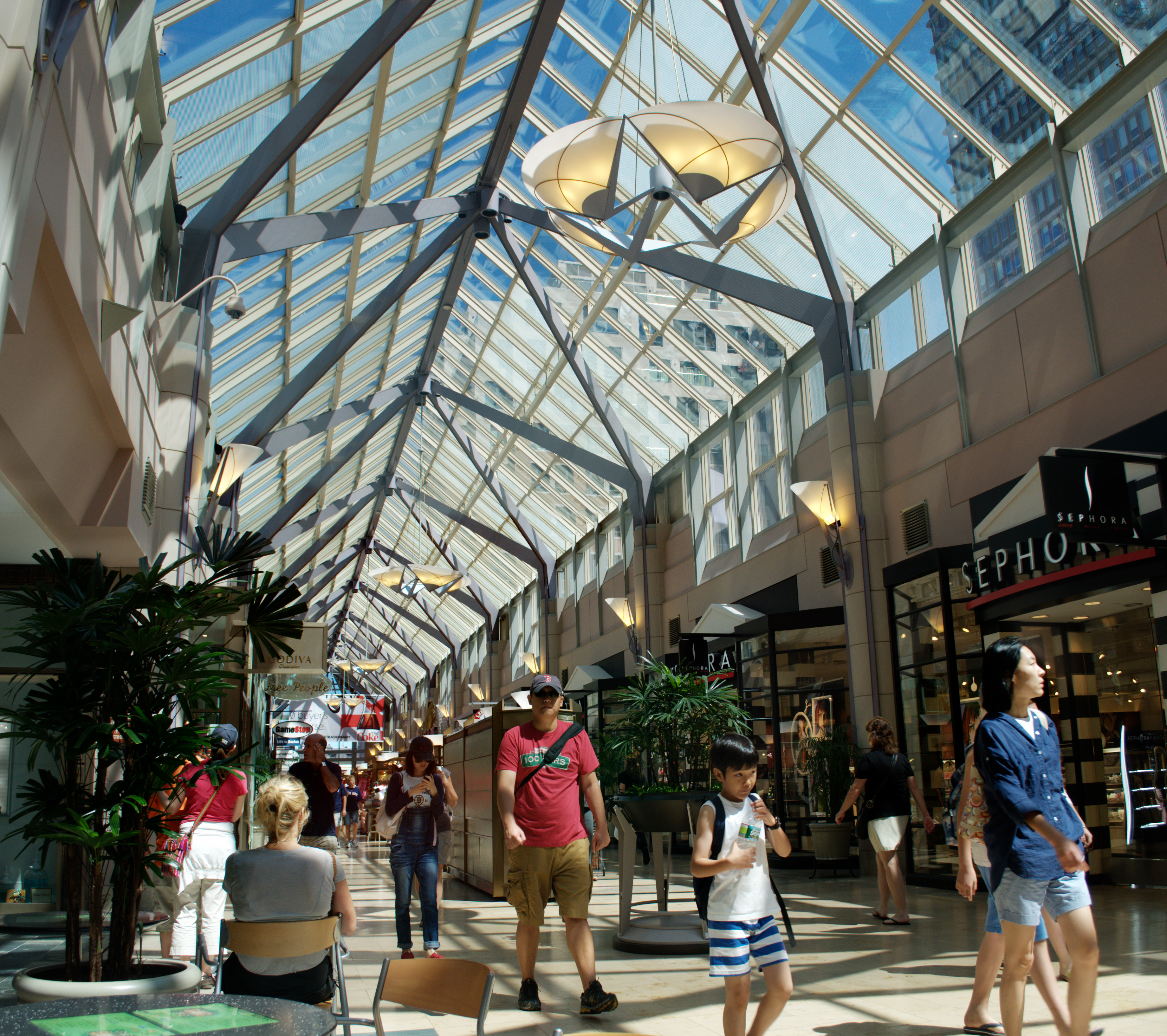 Interior of Prudential Center, Boston. Taken while I stopped for a sandwich and cookie at Paradise Bakery & Cafe, on my way to the airport from the Marriott, after the Wikipedia in Higher Education Summit.